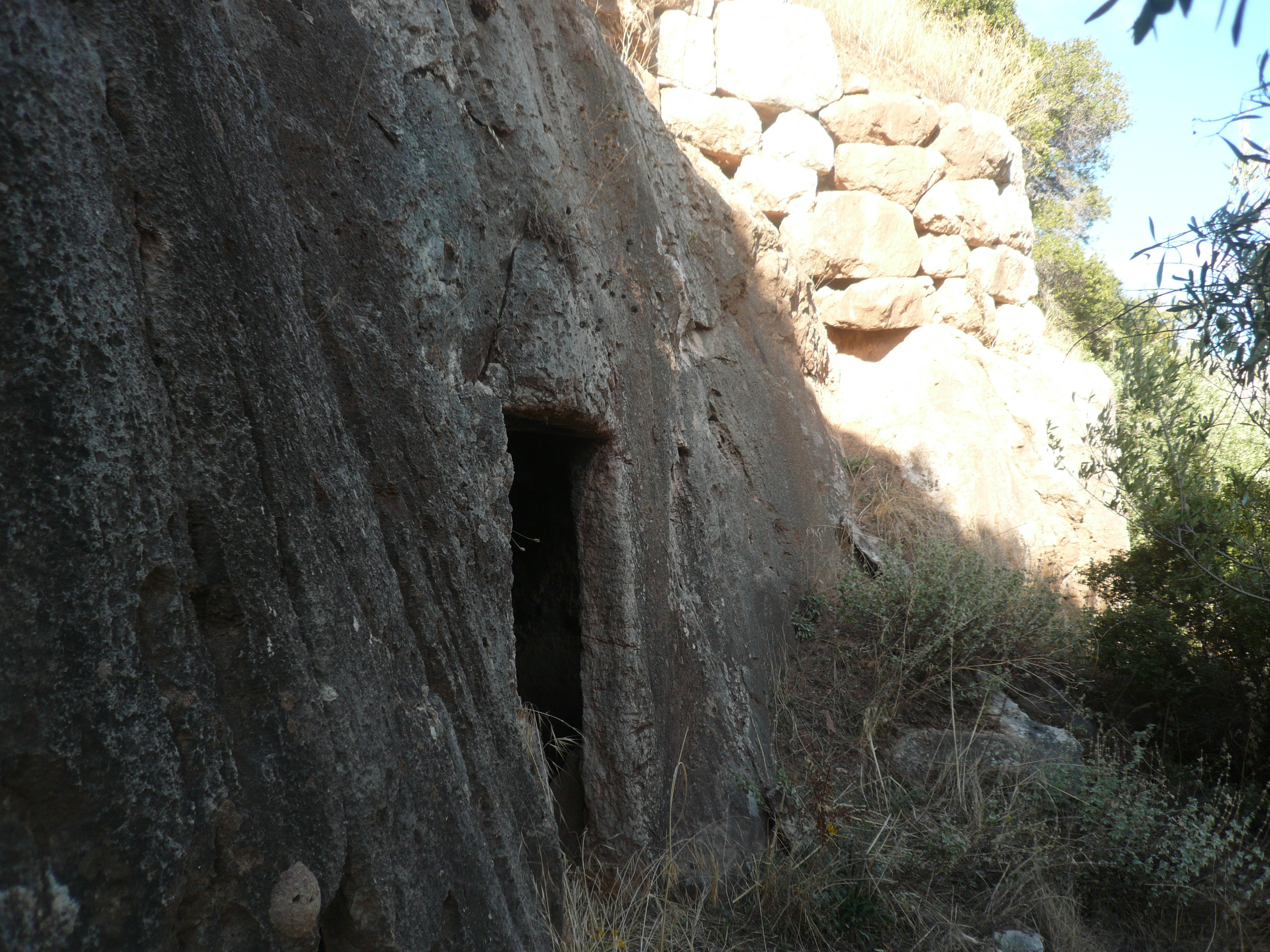 Askitario in Acropolis of Steirida, Boeotia, Greece